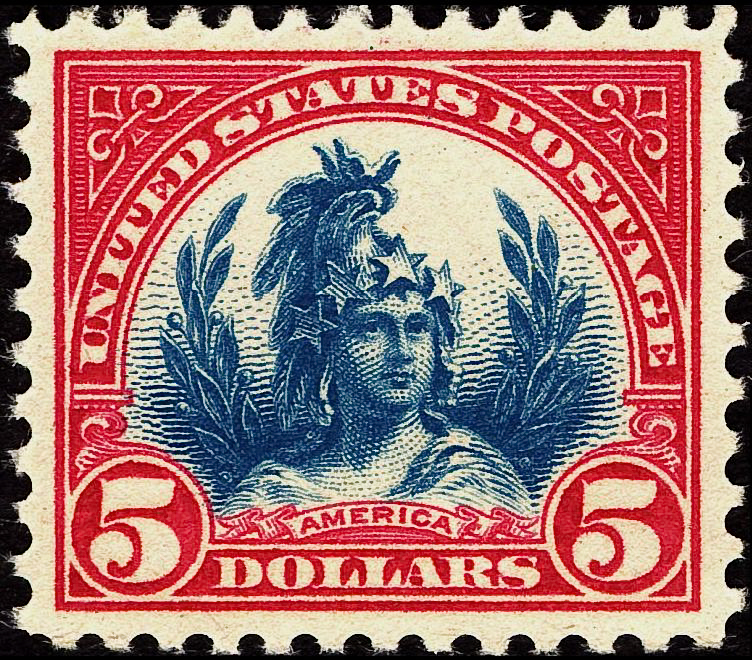 US Postage Stamp, Freedom, $5, blue and red